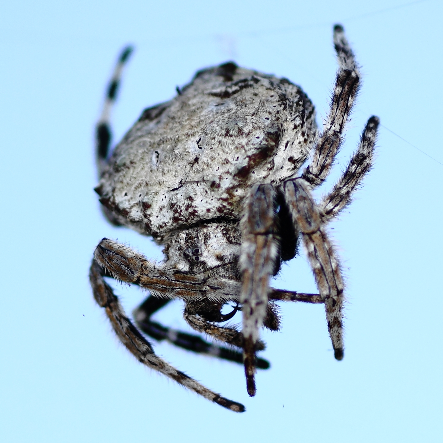 Bark spider (Caerostris sp.) showing eyes